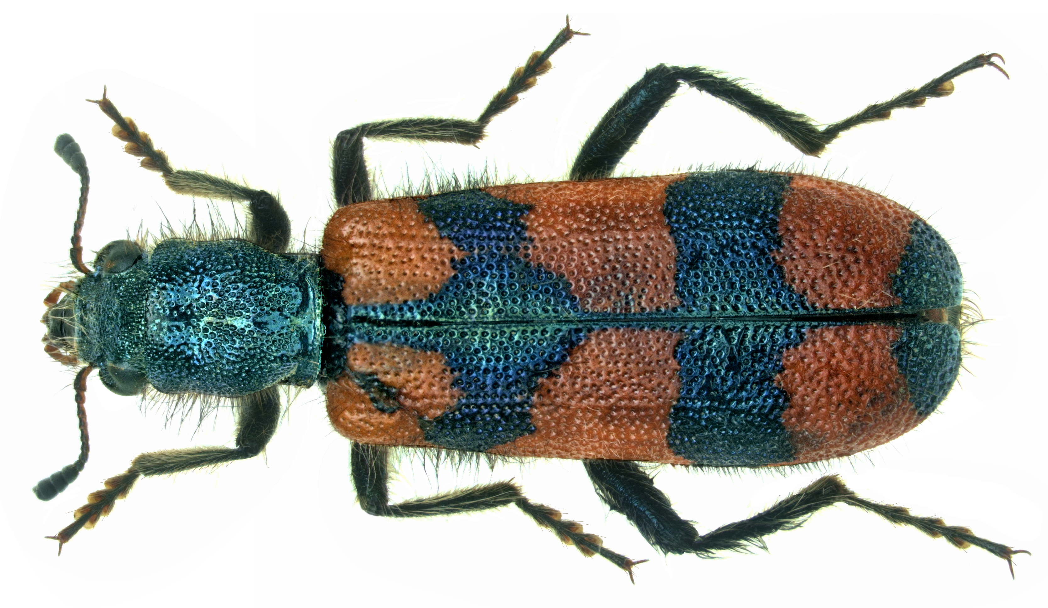 Family: Cleridae Size: 14,5 mm Location: North Iran, Prov. Mazandaran, Elburz, Javaherdeh Road, Doshoon Kooh, 1460 m leg. A.Skale, 2.VI.2008; det. R.Gerstmeier, 2008 Photo: U.Schmidt, 2013